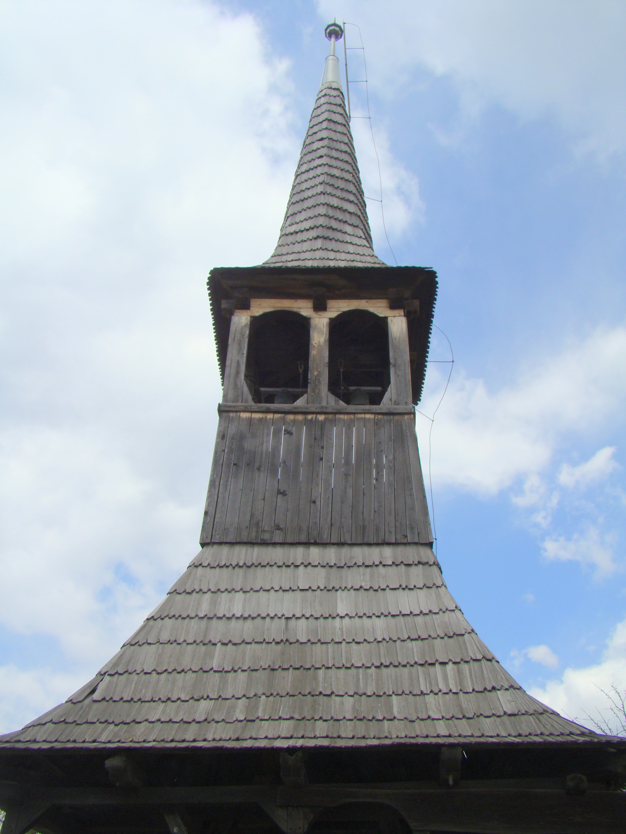 Reformed church in Satu Mic, Harghita county, Romania